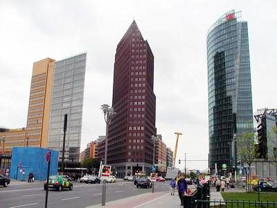 Potsdamer Platz, seen from Leipziger Platz